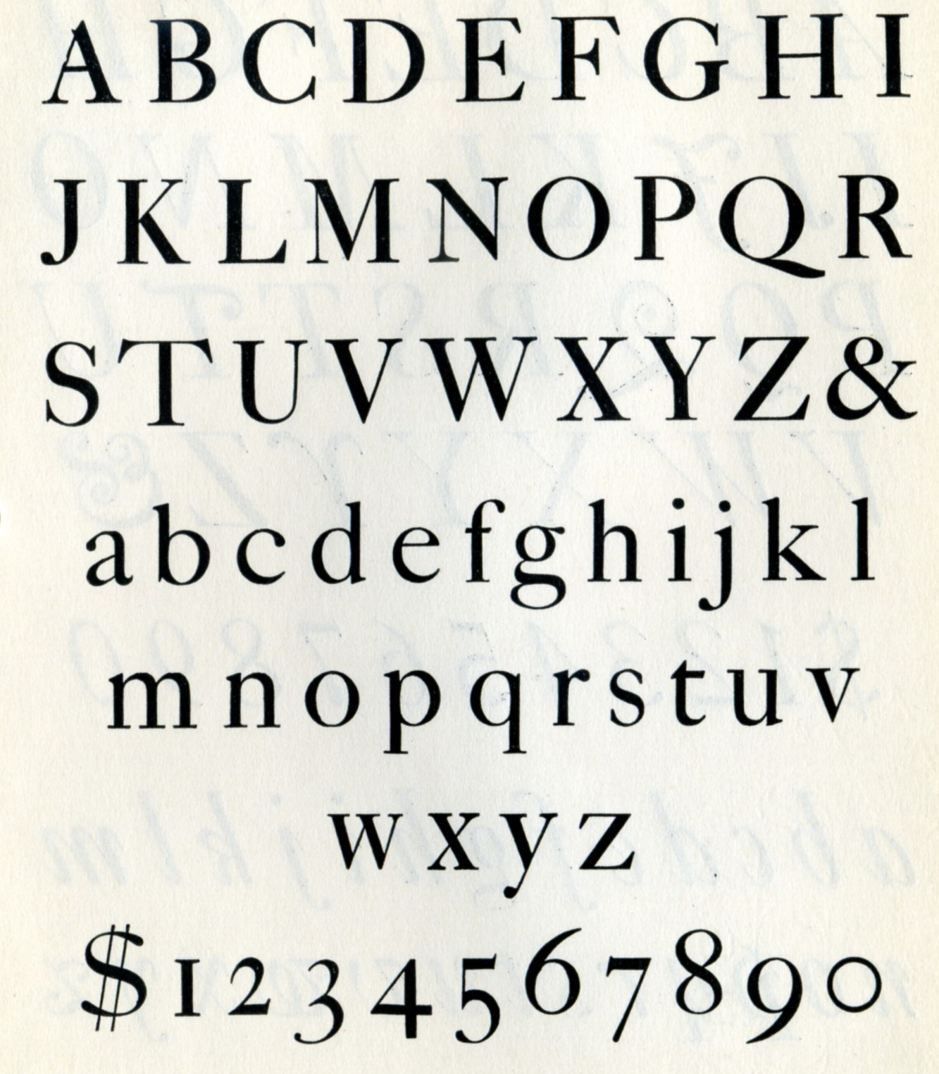 The ATF font Caslon 471 on a metal type specimen sheet.